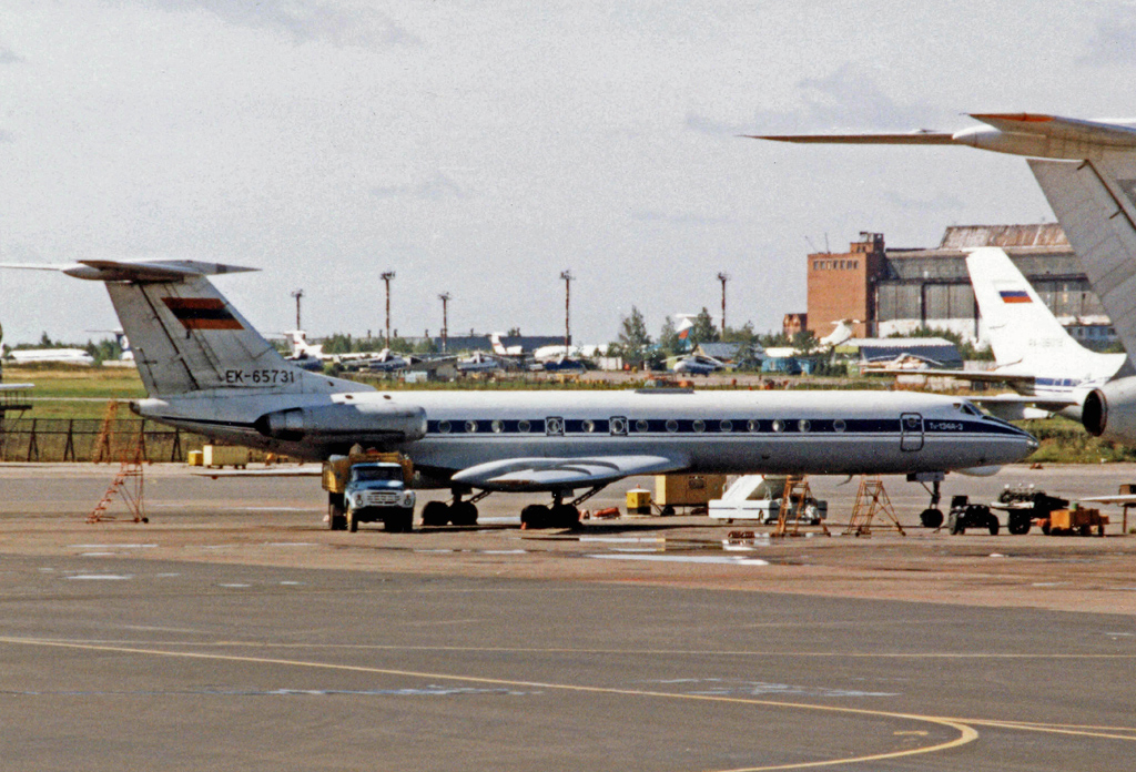 Armenian Airlines Tupolev Tu-134A EK-65731 at Moscow Vnukovo Airport in 1994